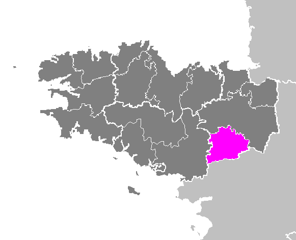 Maps of arrondissements and cantons of France: Arrondissement de Redon.PNG